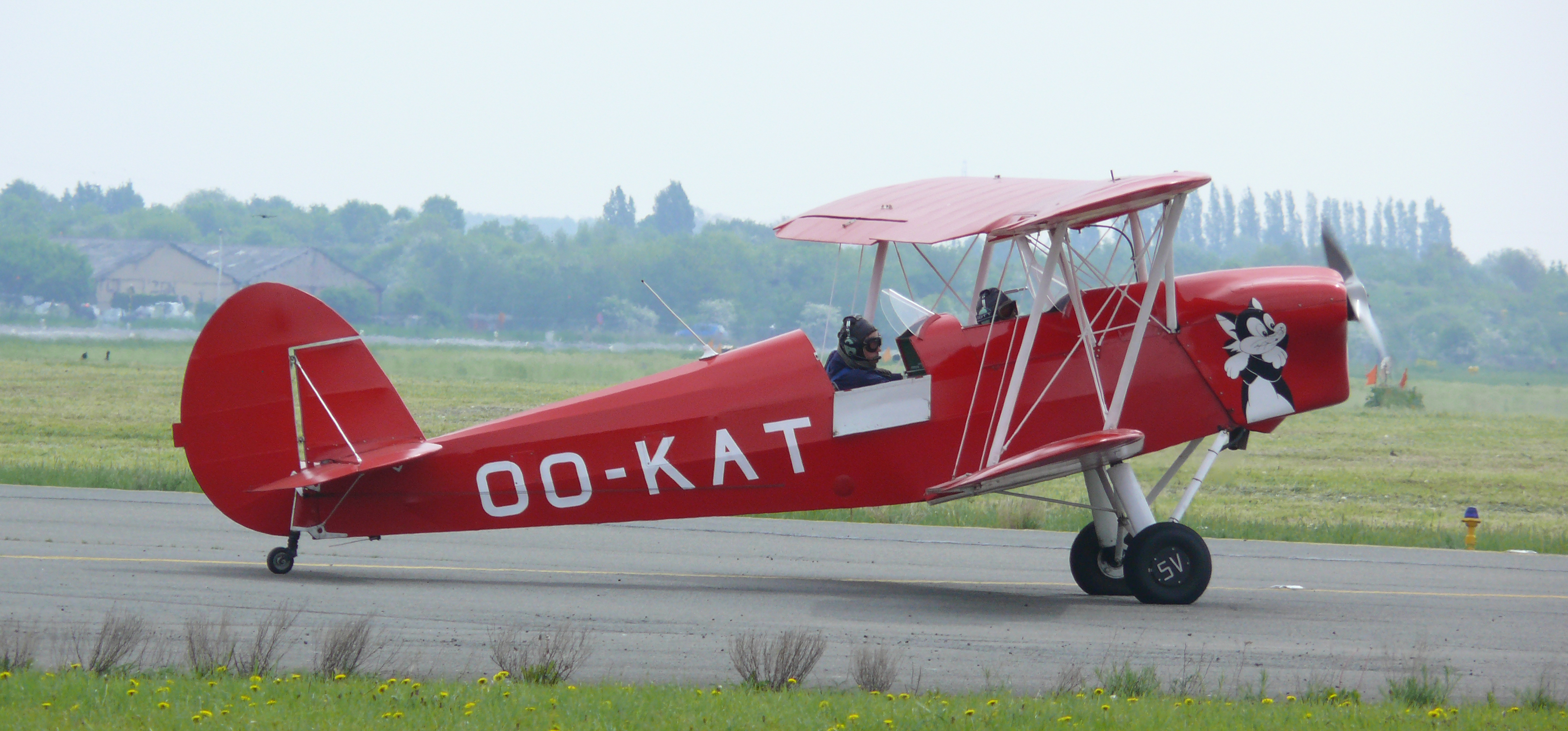 Stampe en Vertongen SV.4E (OO-KAT) during the stampe Fly-in 2010. French built 1946 SV4, which served as prototype for fitting the Stampes with a Lycoming motor and thereafter designated SV.4E